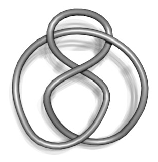 This picture shows eight figure knot. This mathematical object is one of basic nontrivial examples of knots in knot theory. This picture represents it as an 3D object to illustrate how the string runs.